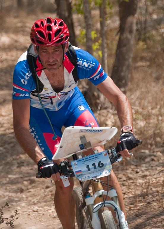 Viktor Korchagin -- the member of mtb-orienteering team of Russia at MTB-World Orienteering Championship 2009